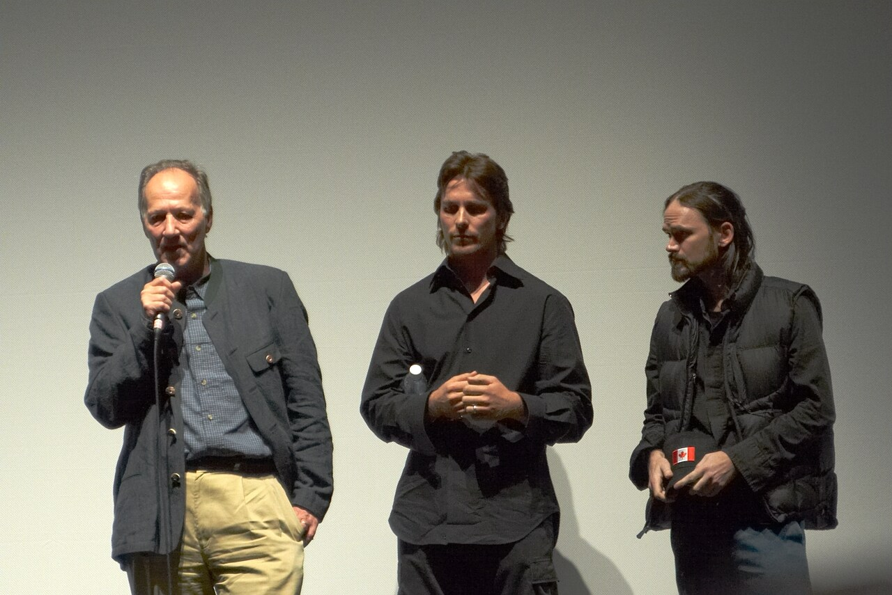 Werner Herzog, Christian Bale and Jeremy Davies answer questions after the premiere screening of Rescue Dawn in Toronto